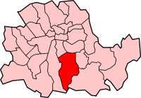 Map of the Metropolitan borough of Camberwell, former County of London.